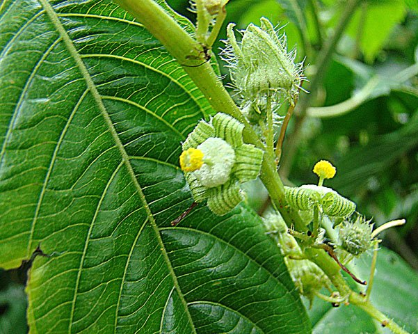 Dick Culbert: This appears to be the flower of Sechium venosum, found in Costa Rica and Panama. The name would suggest that the fruit are poisonous, and should not be confused with S. edule, the widely consumed Chayote.